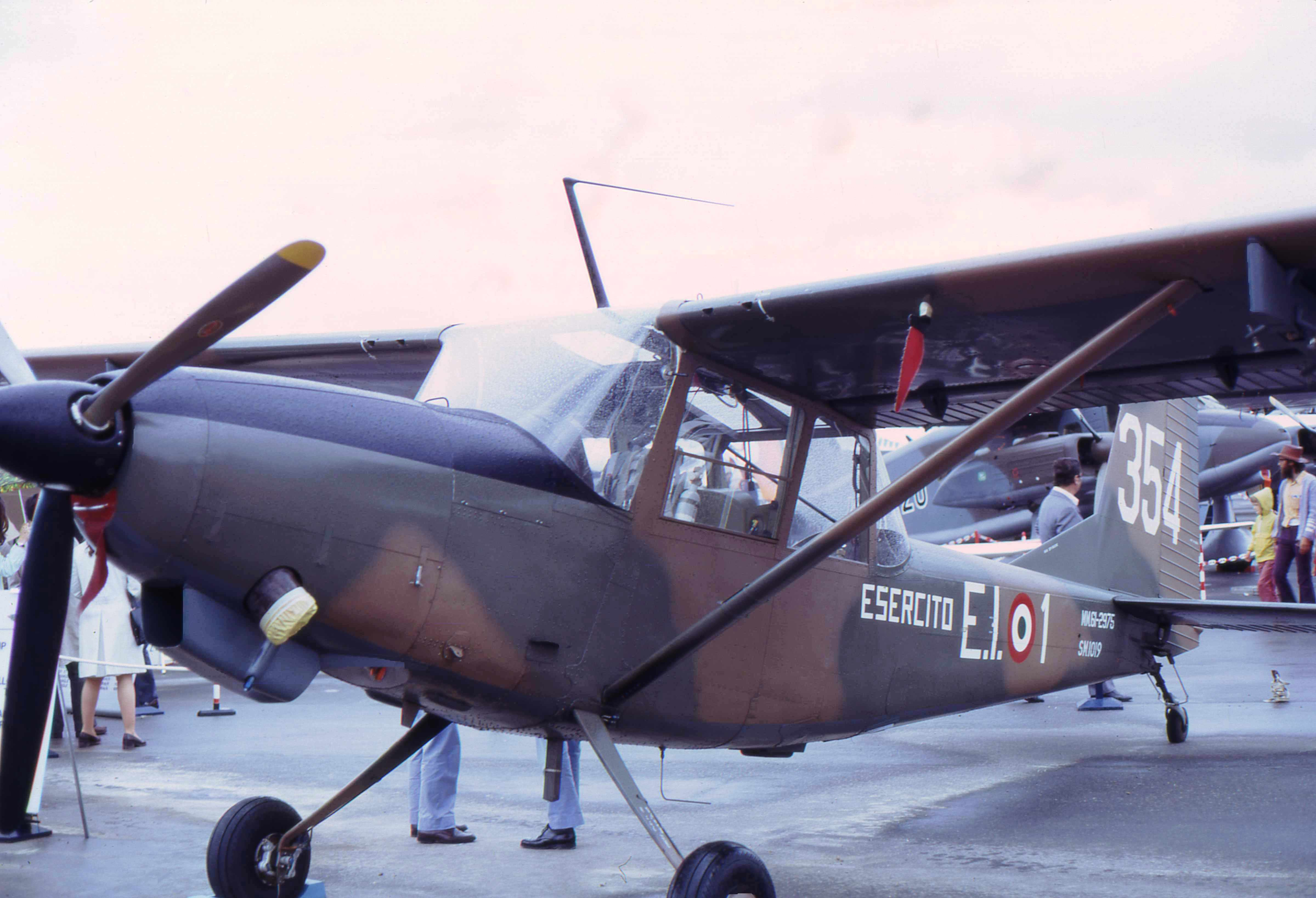 France, Paris Air Show 1973. The Italian STOL liaison monoplane SIAI-Marchetti SM.1019A with the insignia of the Italian Army shown at the static display.